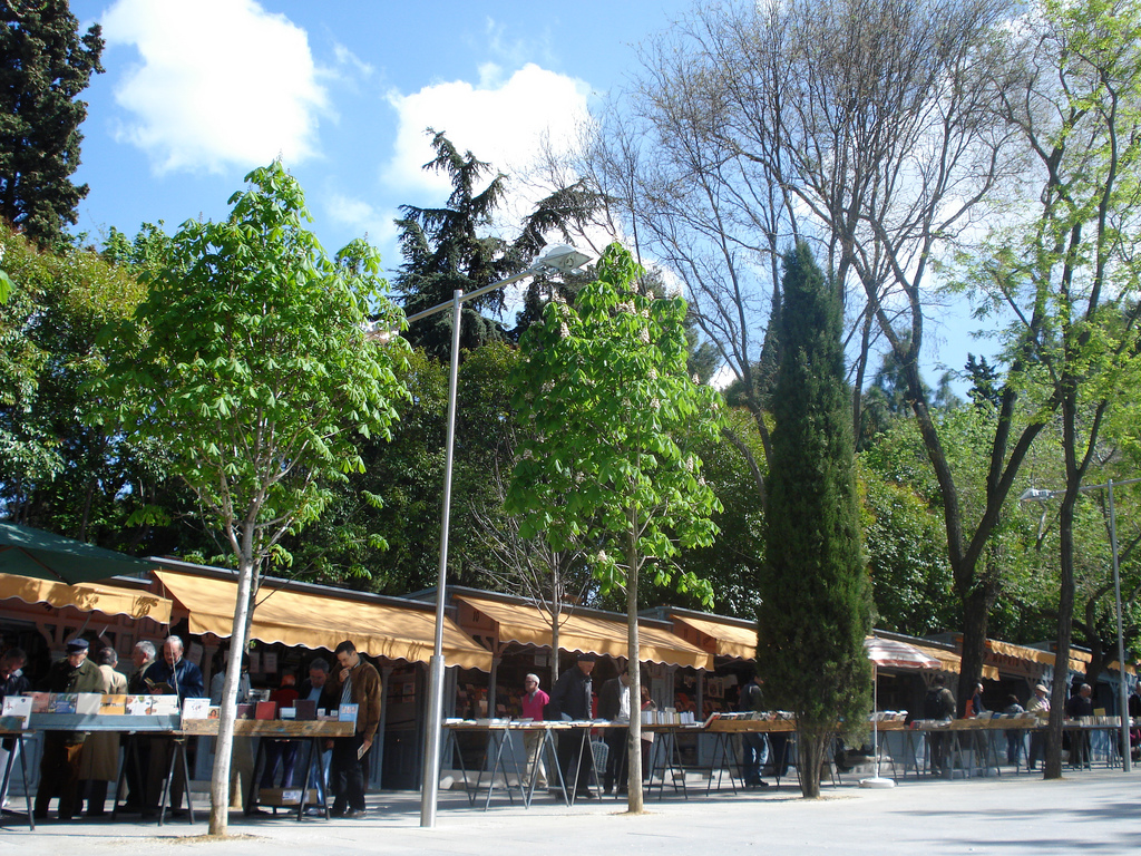 View of the Cuesta de Moyano (a pedestrian street) in Madrid (Spain).